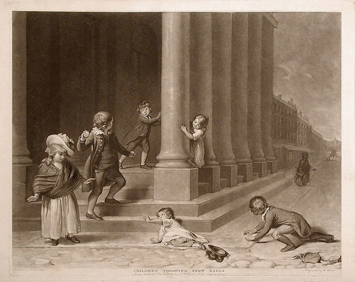 William Ward, after Richard Morton Payer: Children throwing Snow Balls Published by John Raphael Smith, London, 8 December 1785 Mezzotint. Image size (including text): 17 1/8 x 21 1/2 inches.